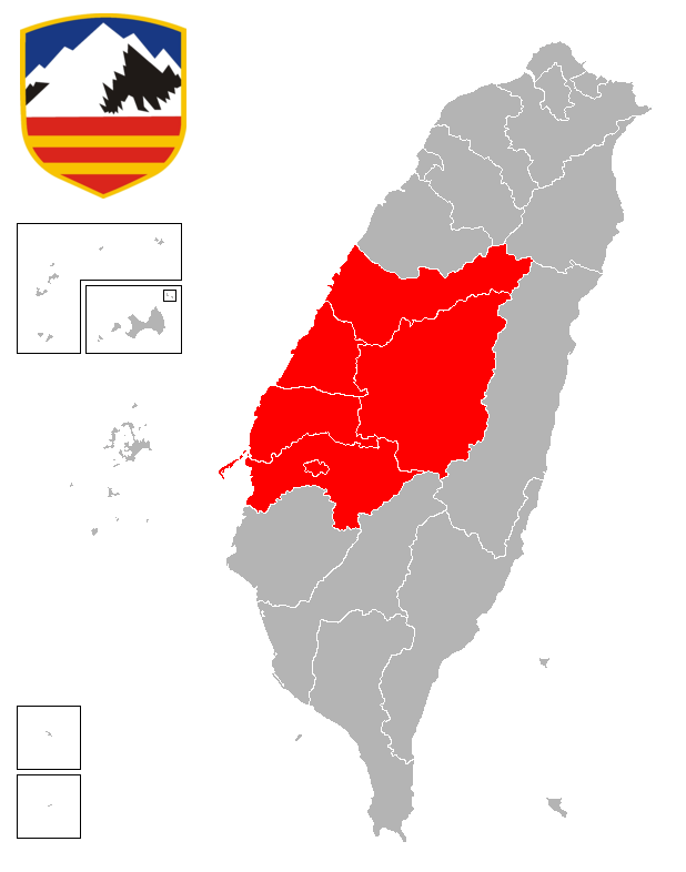 Republic of China (Taiwan) 10th Army Corps map